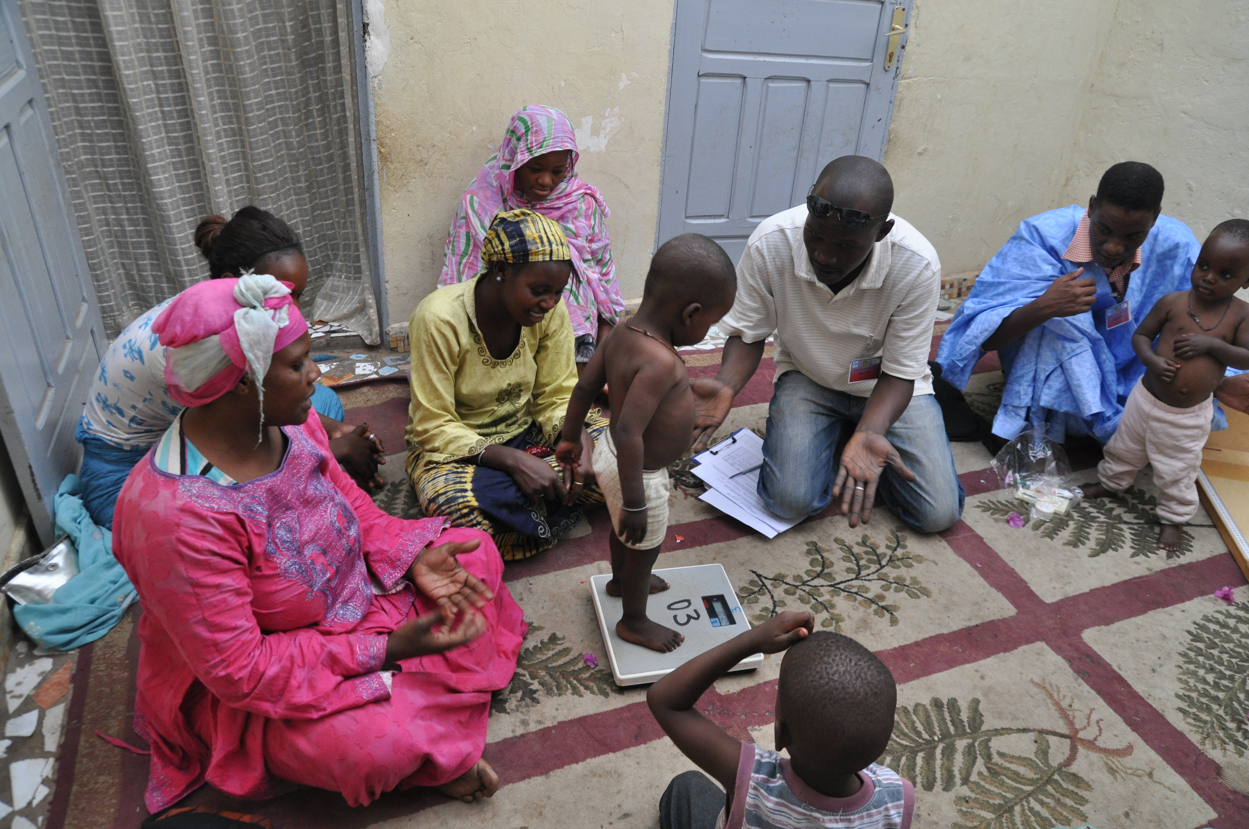 Nouakchott (Mauritania)